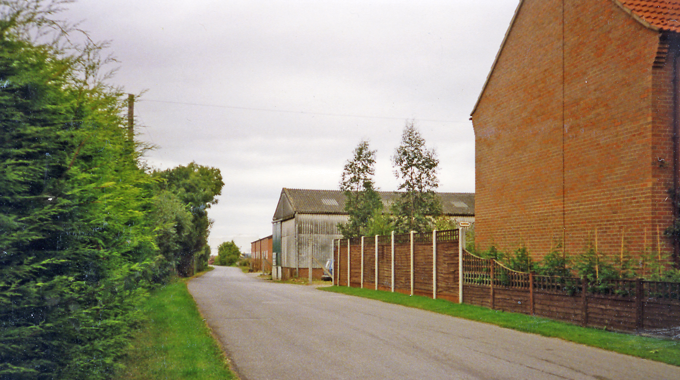 Site of former Elvington station, 1993. View northward on the B1228 road, towards York: former Derwent Valley Light Railway. The station closed and the passenger service (York Layerthorpe - Cliffe Common) ceased 1/9/26, but goods were handled here until 30/9/72 and the line did not close entirely until 27/9/81